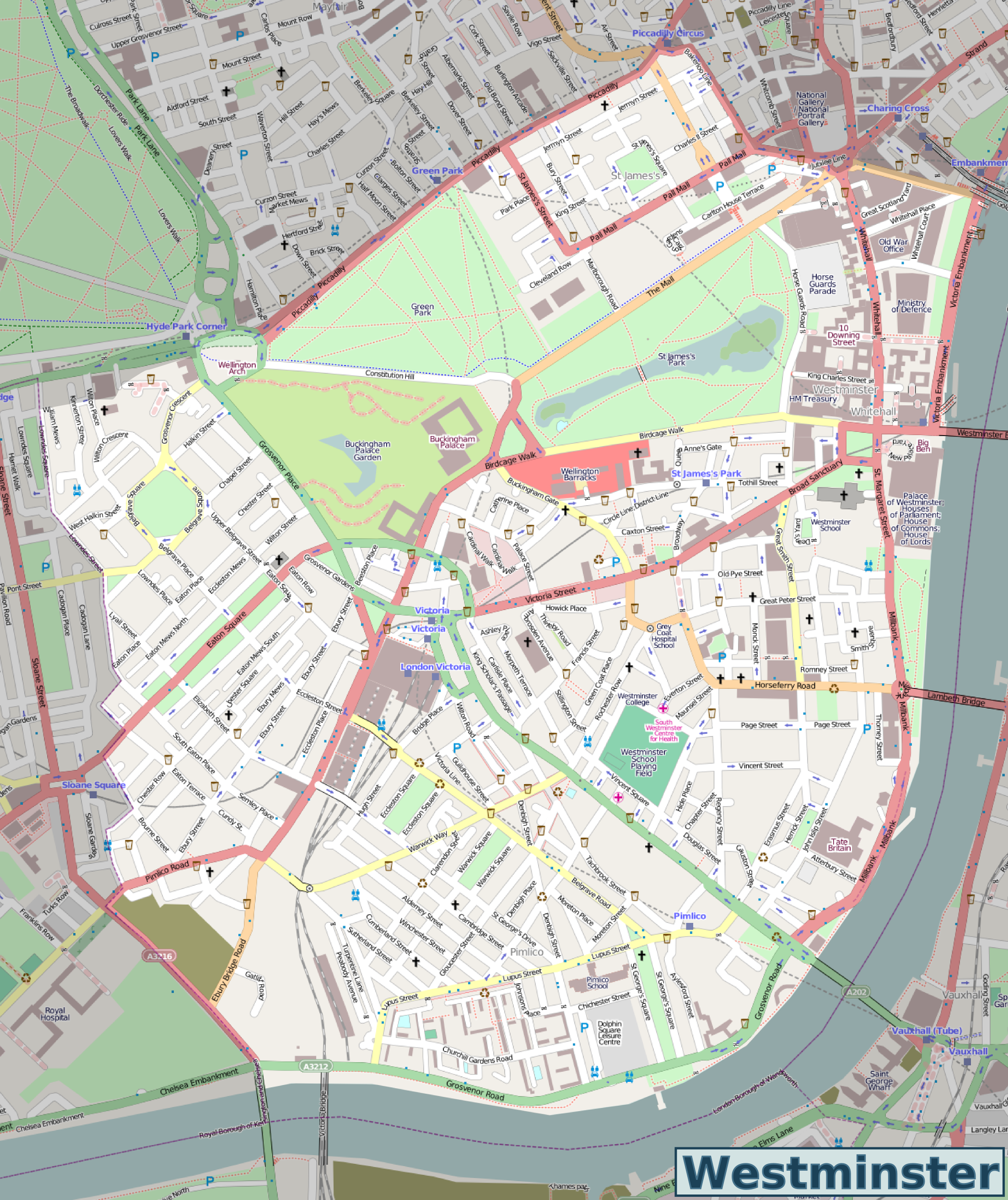 Westminster district map, London.